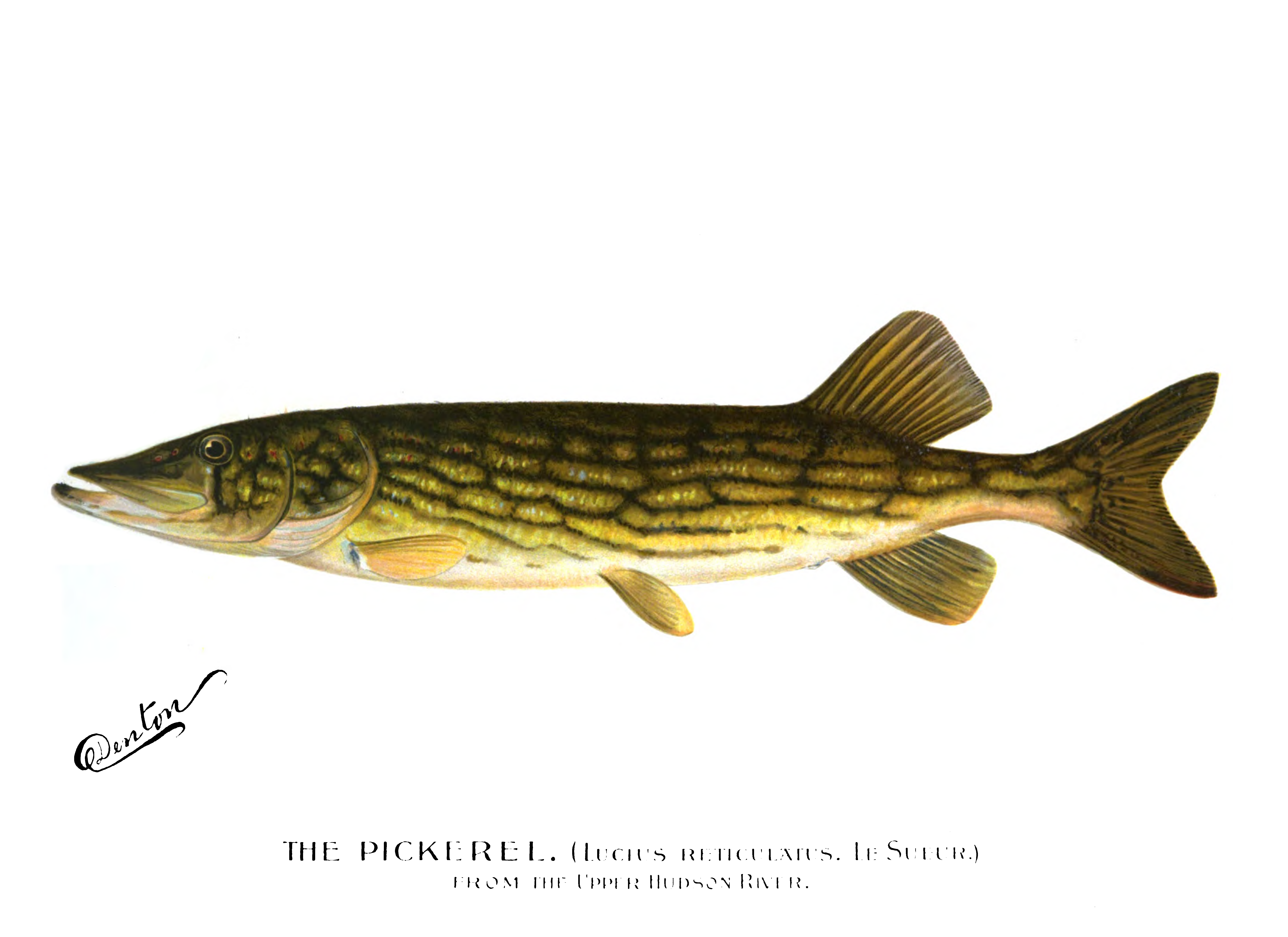 Watercolor of a pickerel taken from the Hudson by SF Denton.